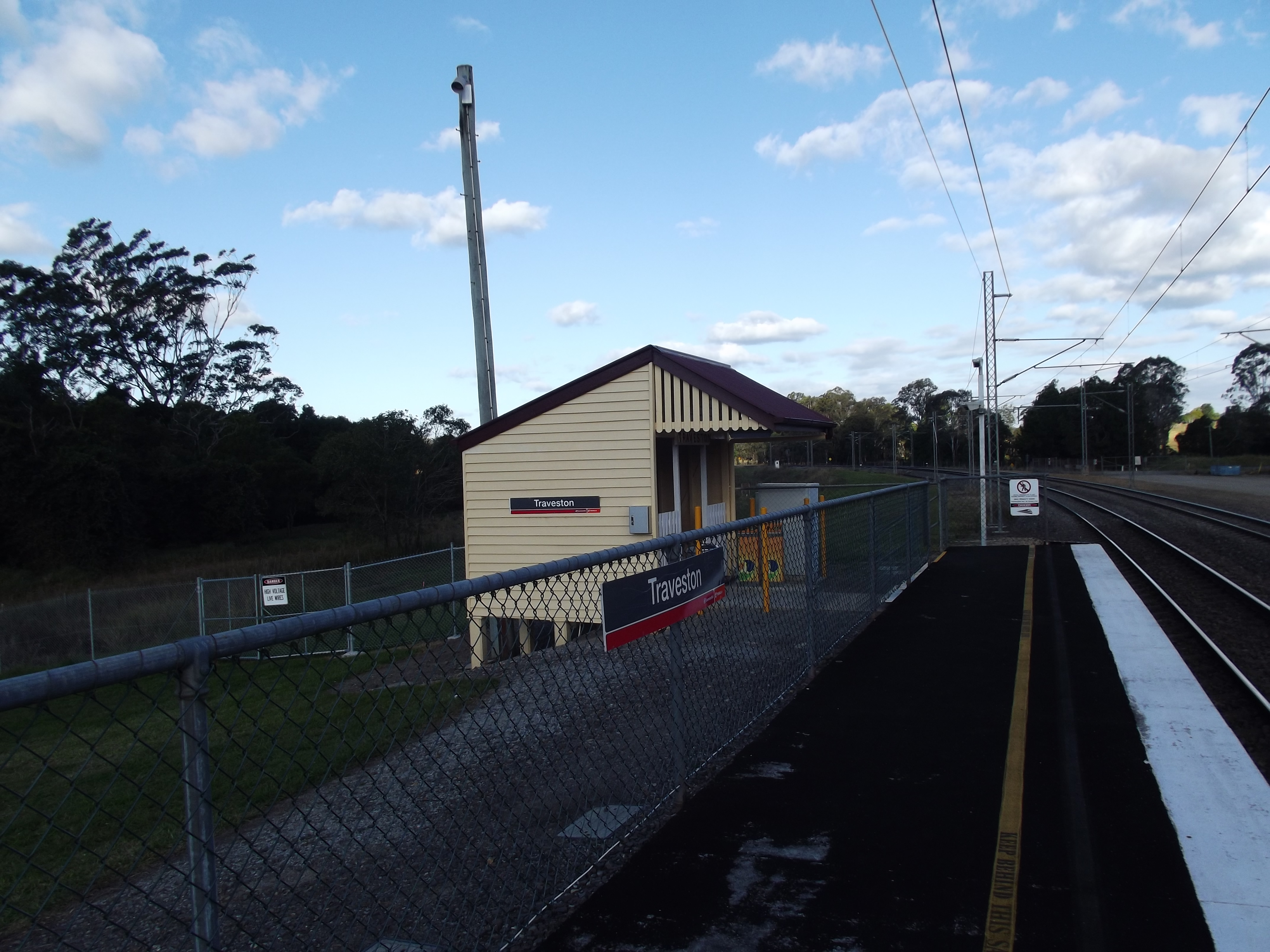 A photo of the Traveston railway station, operated by TransLink, located in Sunshine Coast, Australia.